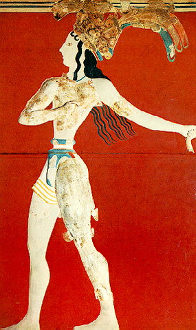 The Prince of lilies. Herakleion Archaeological Museum about 1500 BC photographed by myself.